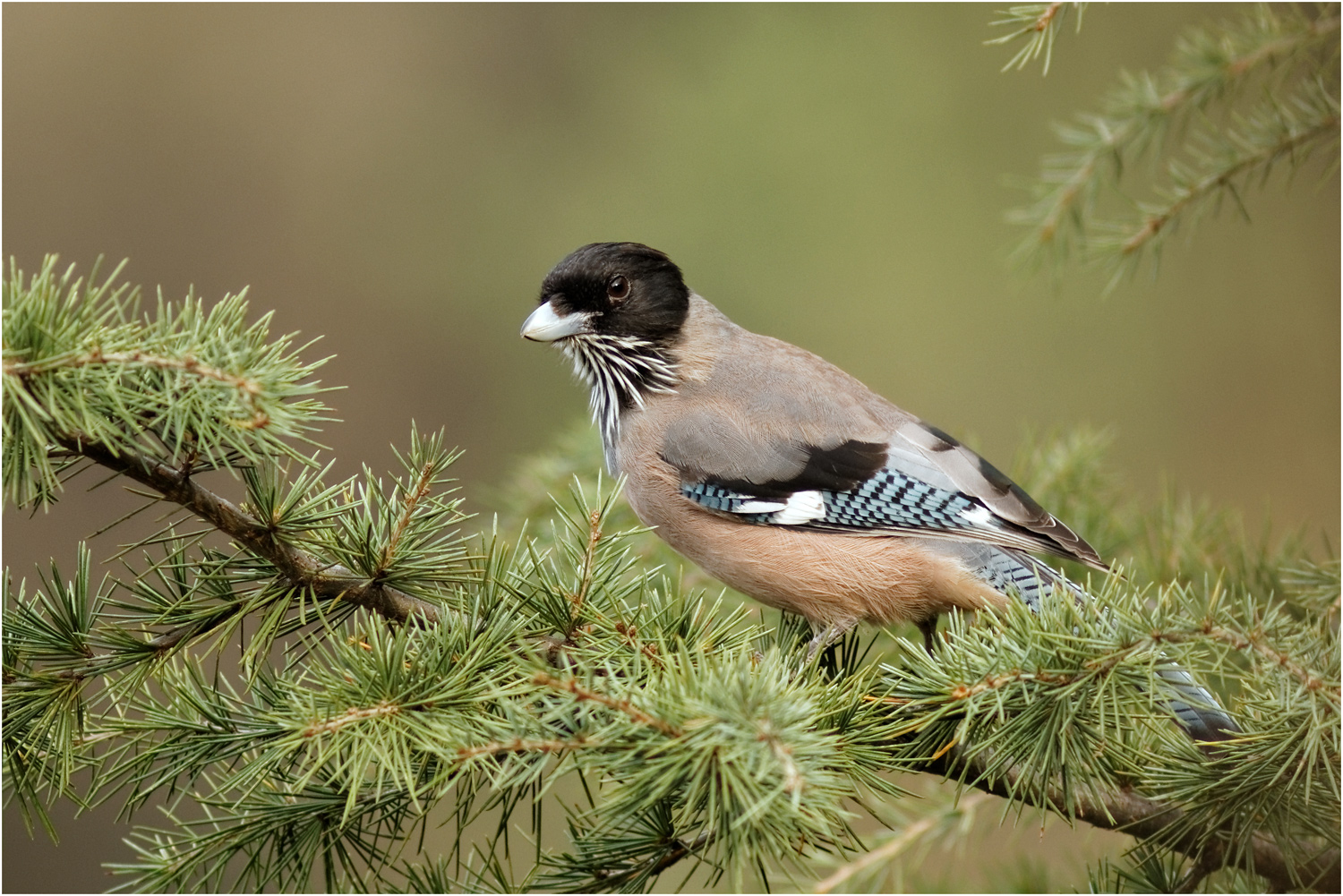 The black-headed jay (Garrulus lanceolatus) at Palampur in Kangra Valley, Himachal Pradesh, India.